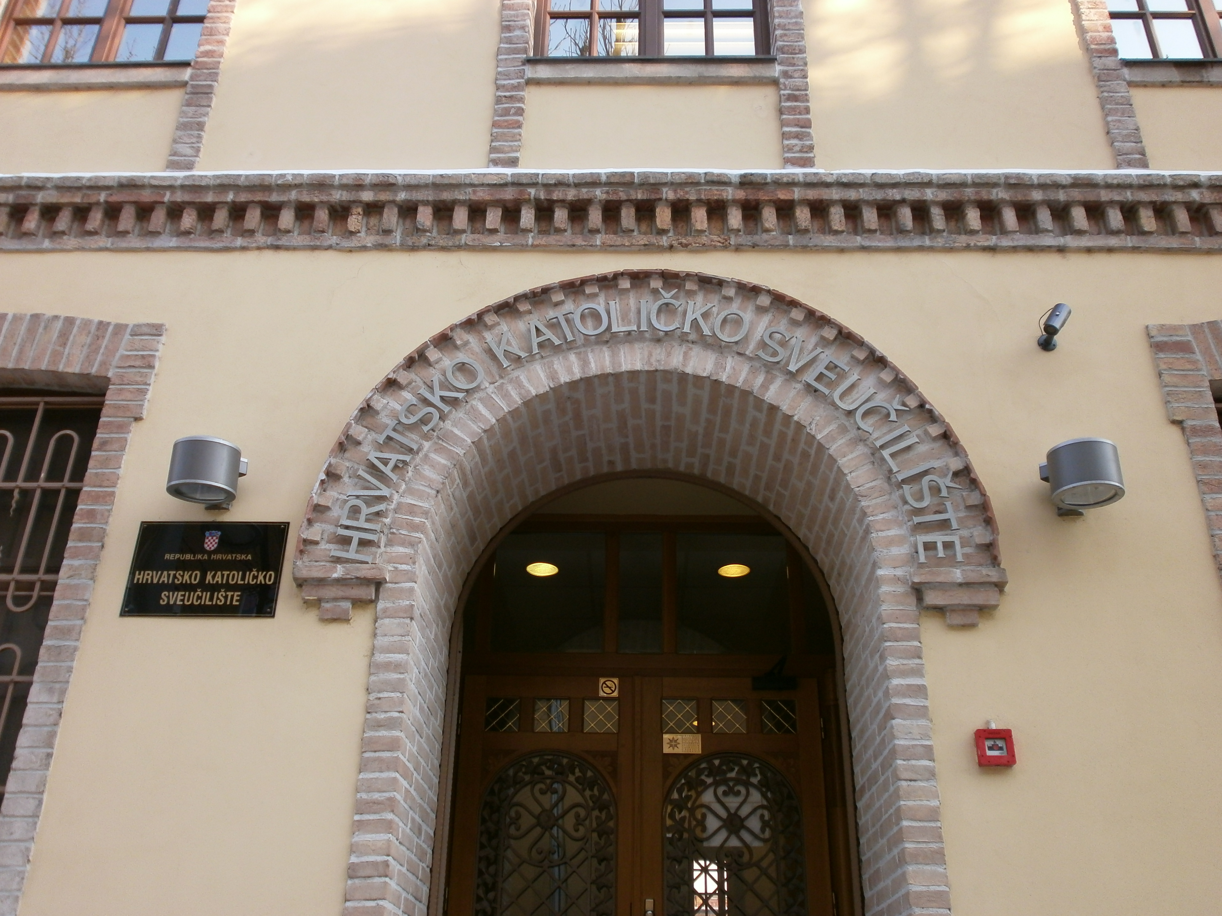 Main entrance to the Catholic University of Croatia